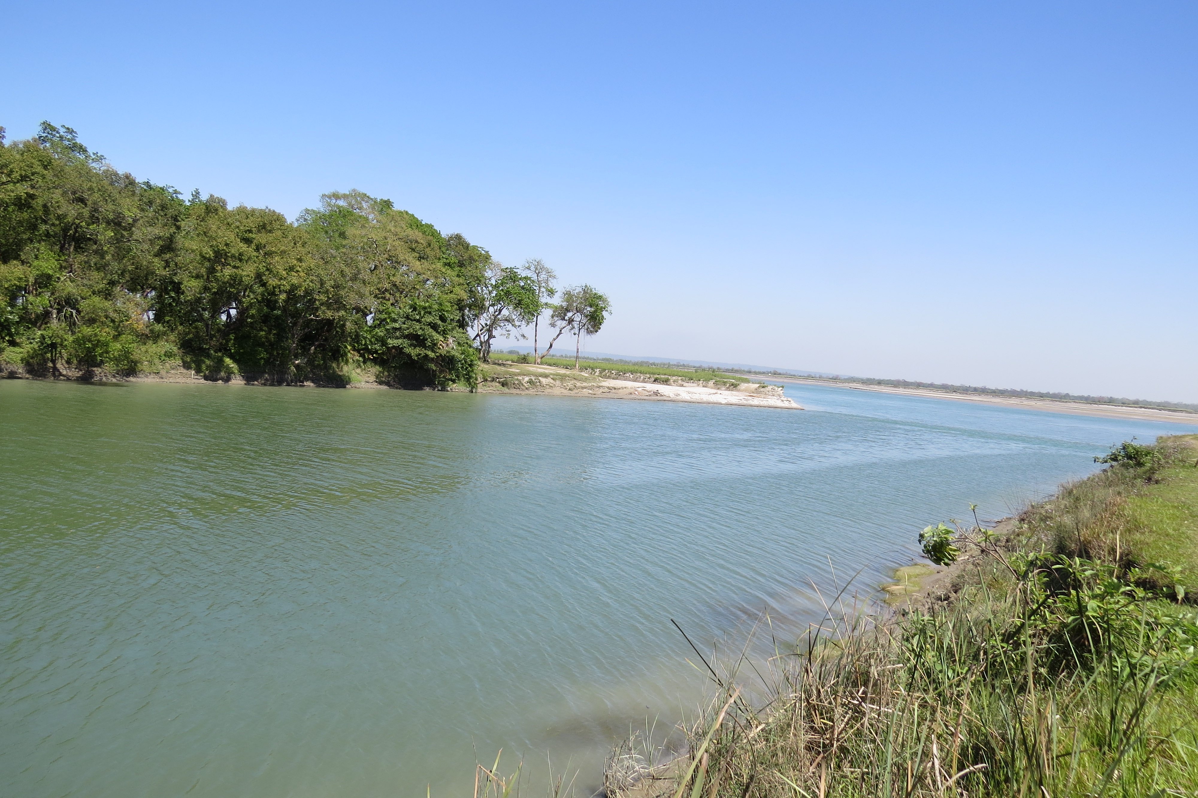 Gandak River, flows between Uttar Pradesh and Bihar (Sohagi barwa WLS)